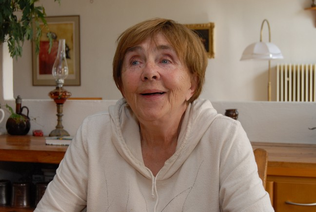 Hermína Franková